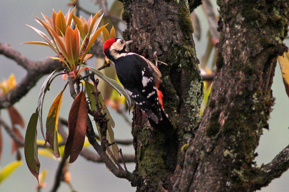 Journey to Wawu Shan, Sichuan